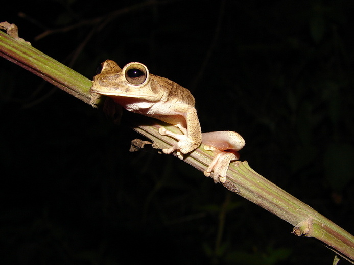 Hypsiboas crepitans